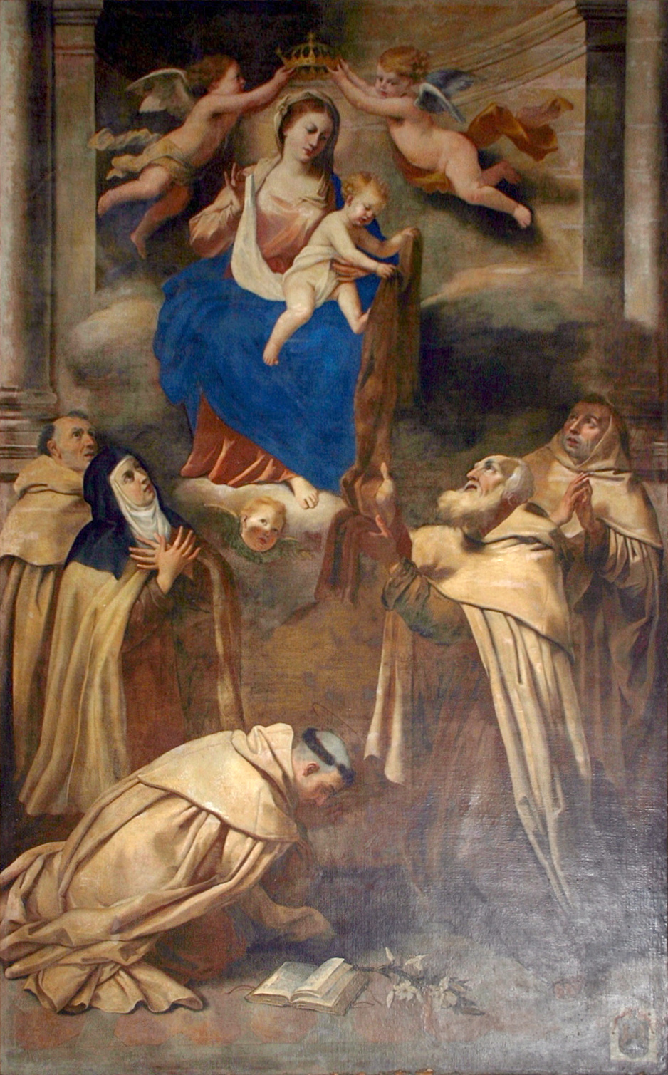 Antonio Alberti called il Barbalonga (17th century), Madonna and Carmelite saints, in the Santa Caterina d'Alessandria church in Taormina, Italy. Picture taken by Giovanni Dall'Orto, on May 18 2008.